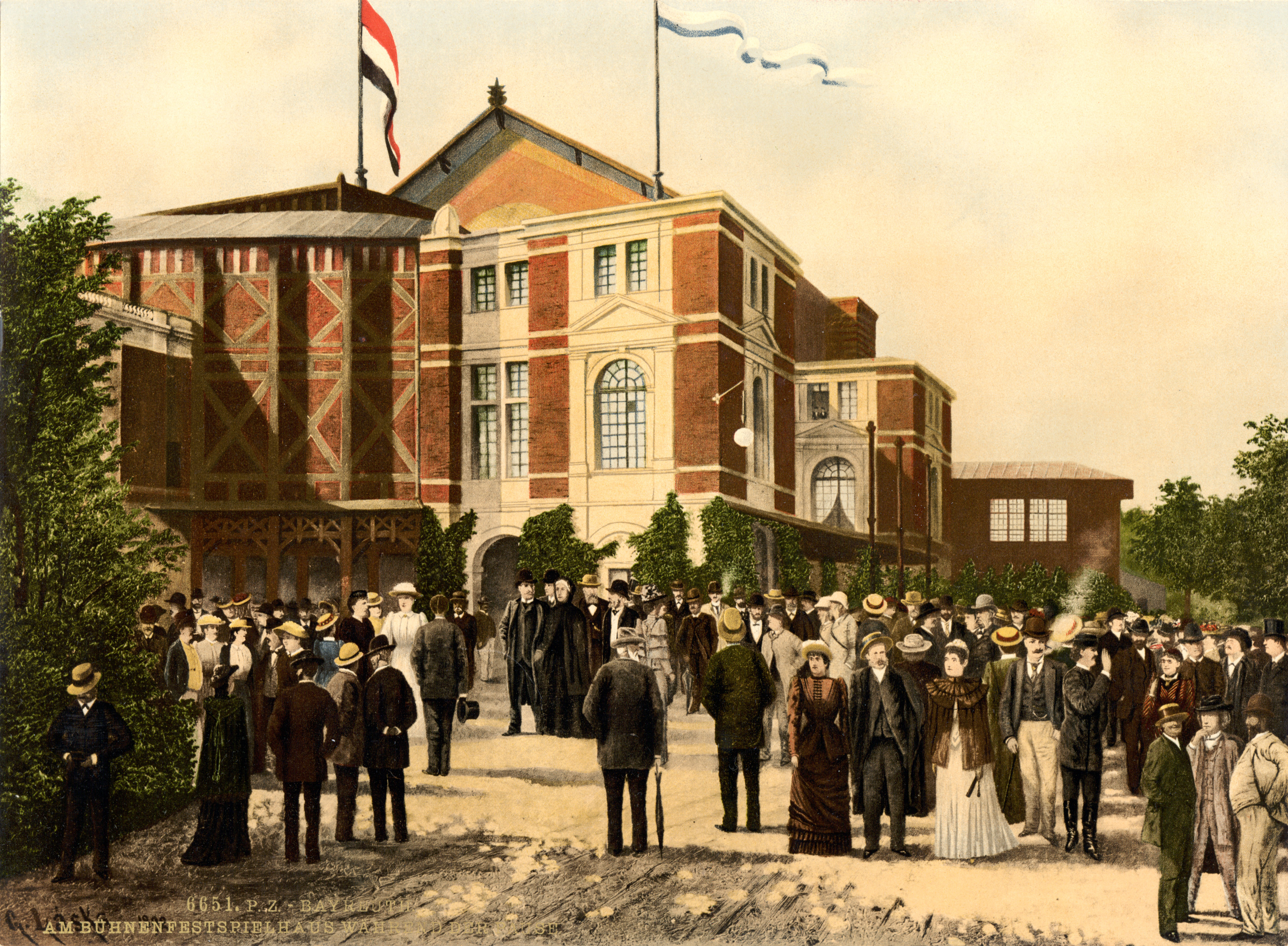 Photochrom print by Photoglob Zürich, between 1890 and 1900. From the Photochrom Prints Collection at the Library of Congress More photochroms from Germany | More photochrom prints [PD] This picture is in the public domain